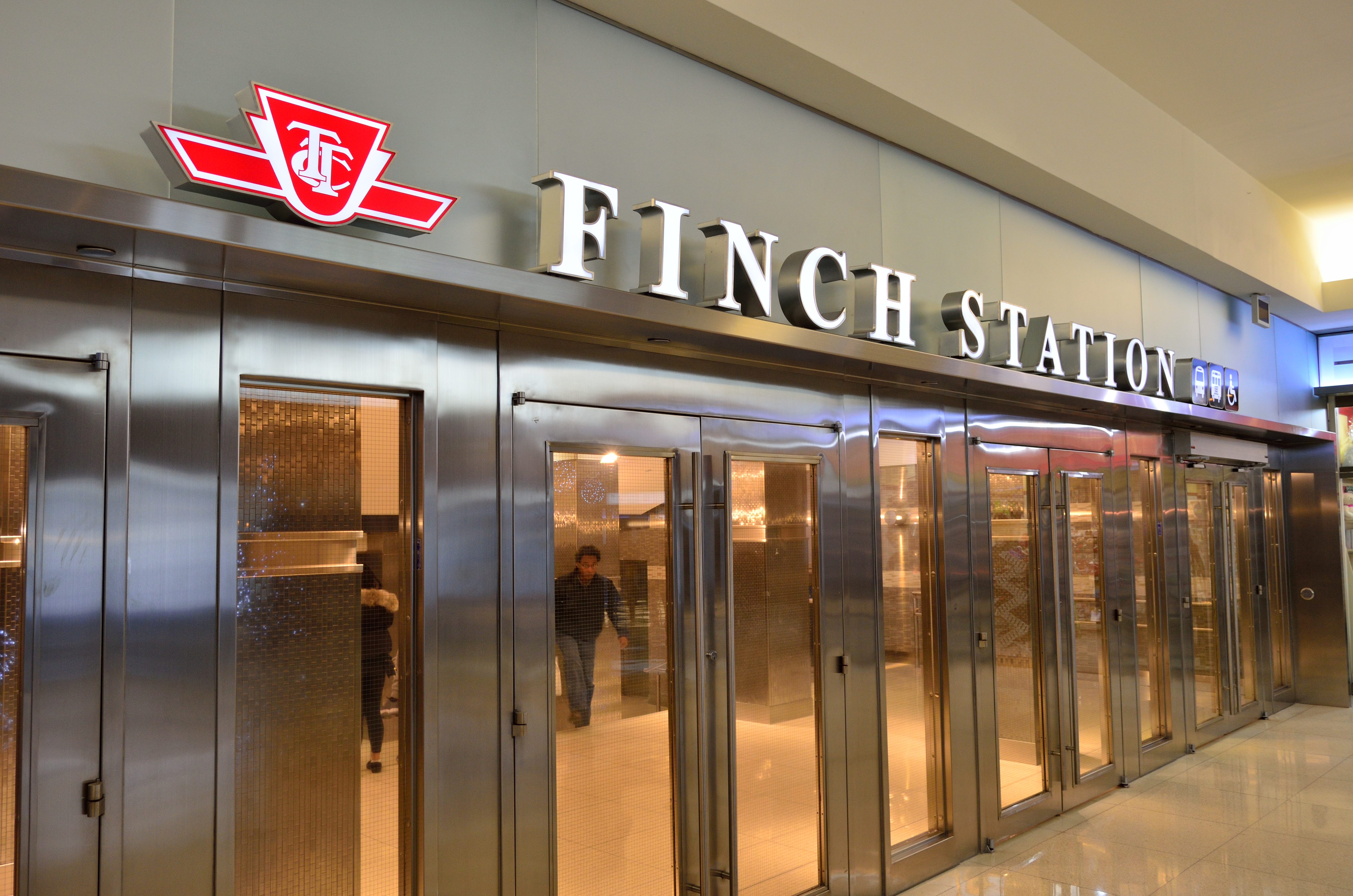 Finch TTC Station North America Centre entrance.